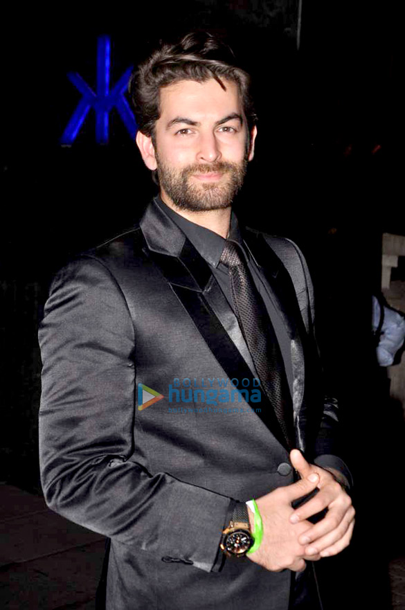 Neil Nitin Mukesh at Neha Dhupia & other stars at Femina party